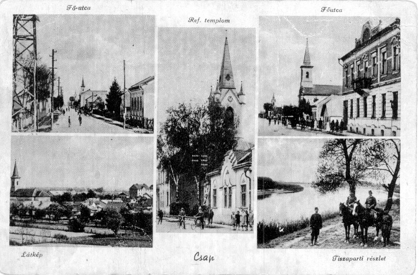 Chop 1939-41